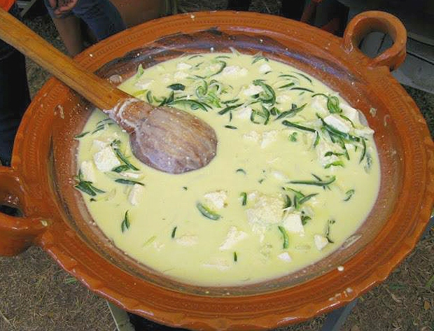 Minguichi with Cotija cheese, Michoacán (México